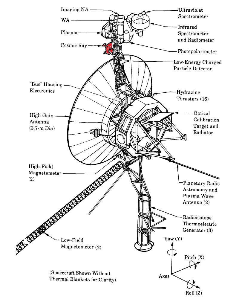 This version has the CRS in red